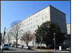 Ford House Office Building, Washington, DC 20515 Obtained from on August 15, 2006.